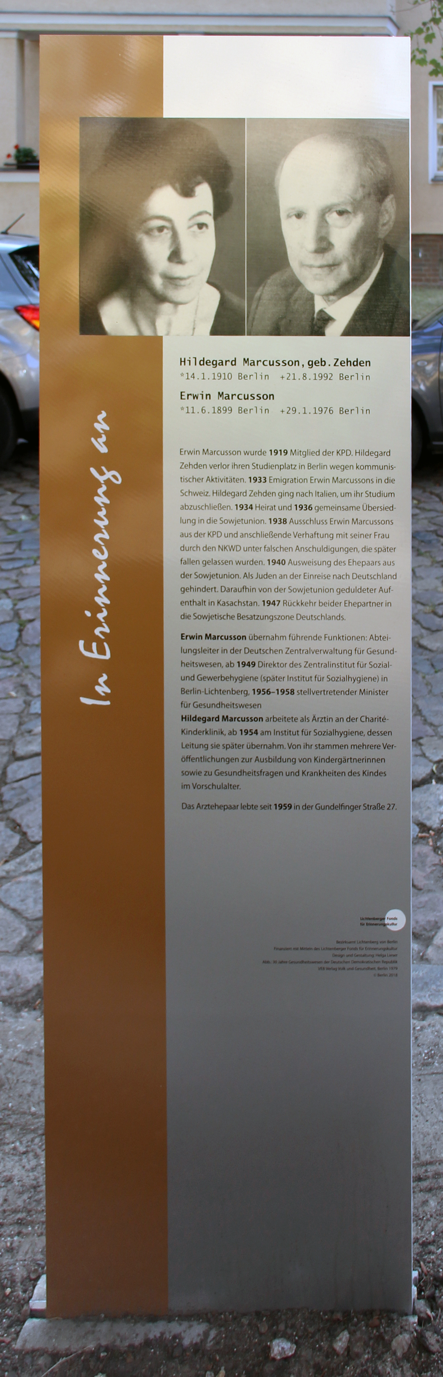 Memorial plaque, Erwin Marcusson, Gundelfinger Straße 27, Berlin-Karlshorst, Deutschland